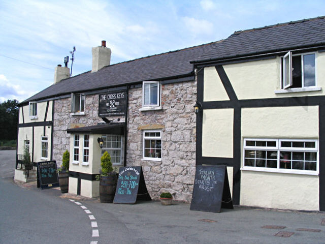 The Cross Keys free house, Llanfynydd. Free house, of course, means that they are not tied to any particular brewery.